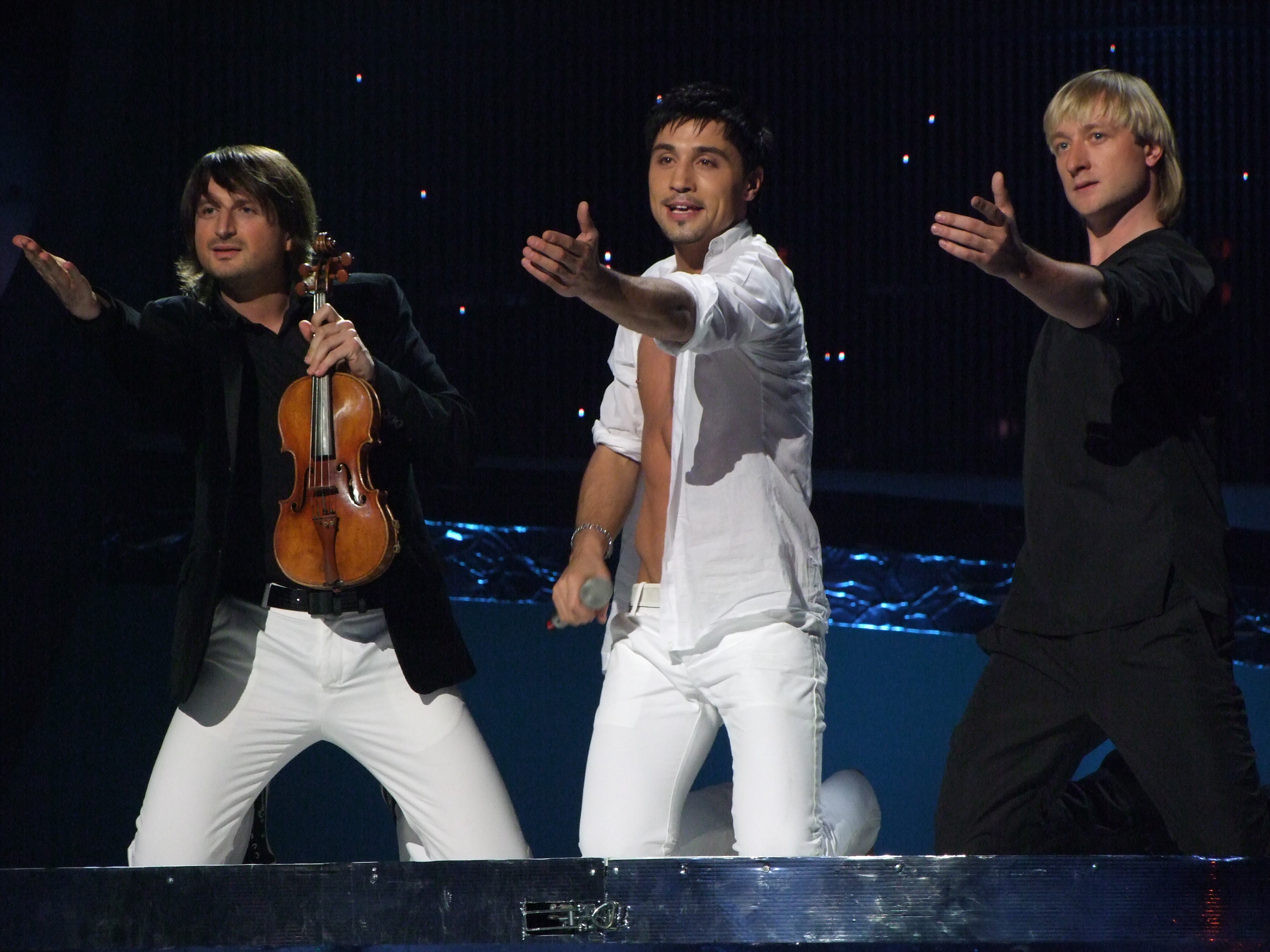 Dima Bilan in the first semi-final at the Eurovision Song Contest in Belgrade, Serbia, May 20, 2008. To the right of the picture, is Russian figure skater, Olympic gold medalist and three-time World Champion Evgeni Plushenko, and to the left is the Hungarian composer and violinist Edvin Marton.